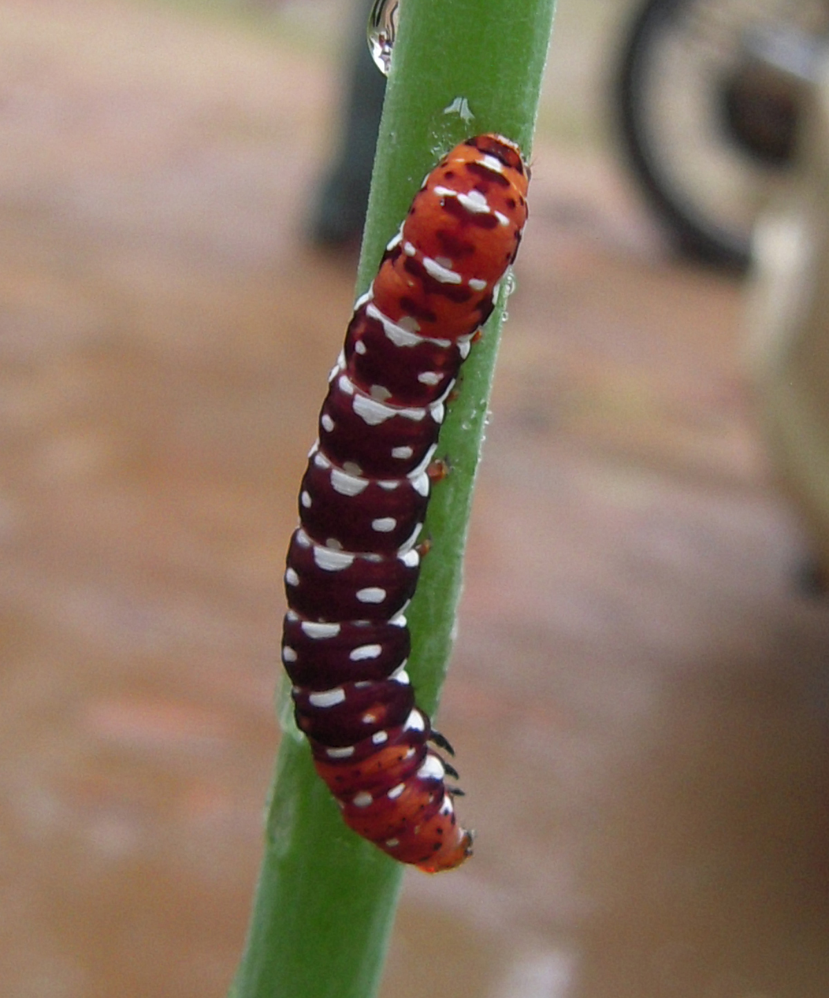 Polytela gloriosae -- Indian Lily Moth (Caterpillar Stage) Polytela is a genus of moths of the Noctuidae family.